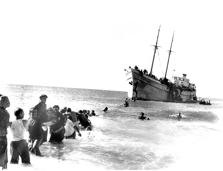 Downloading illegal immigrant ship "Ha'umot Ha'meuchadot" (in hebrew: "United Nations") on the beach of Nahariya, 1 January 1948 The Palmach, Immigration to Israel